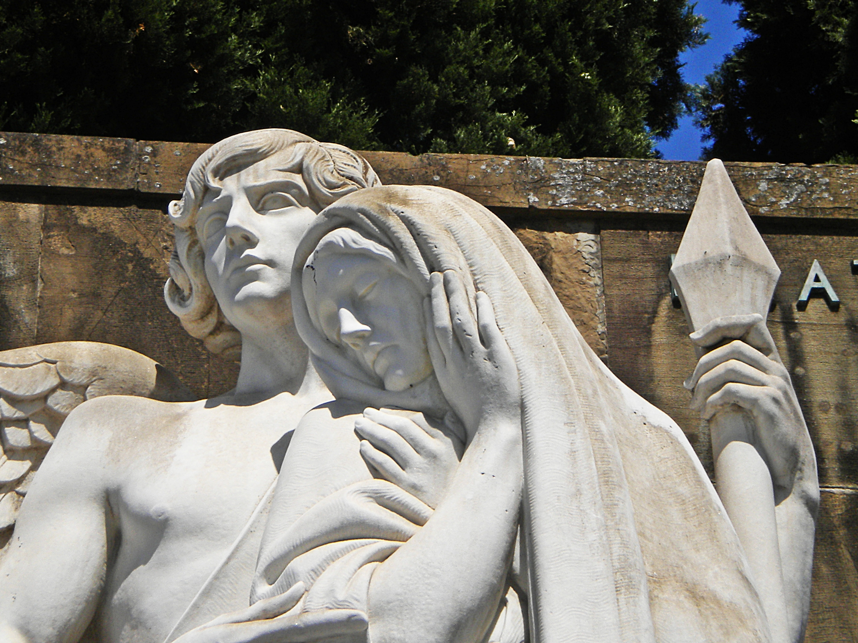 war memorial